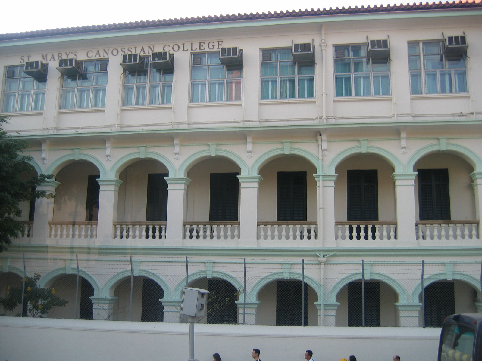 St. Mary's Canossian College, Hong Kong. Taken by Simon Shek.